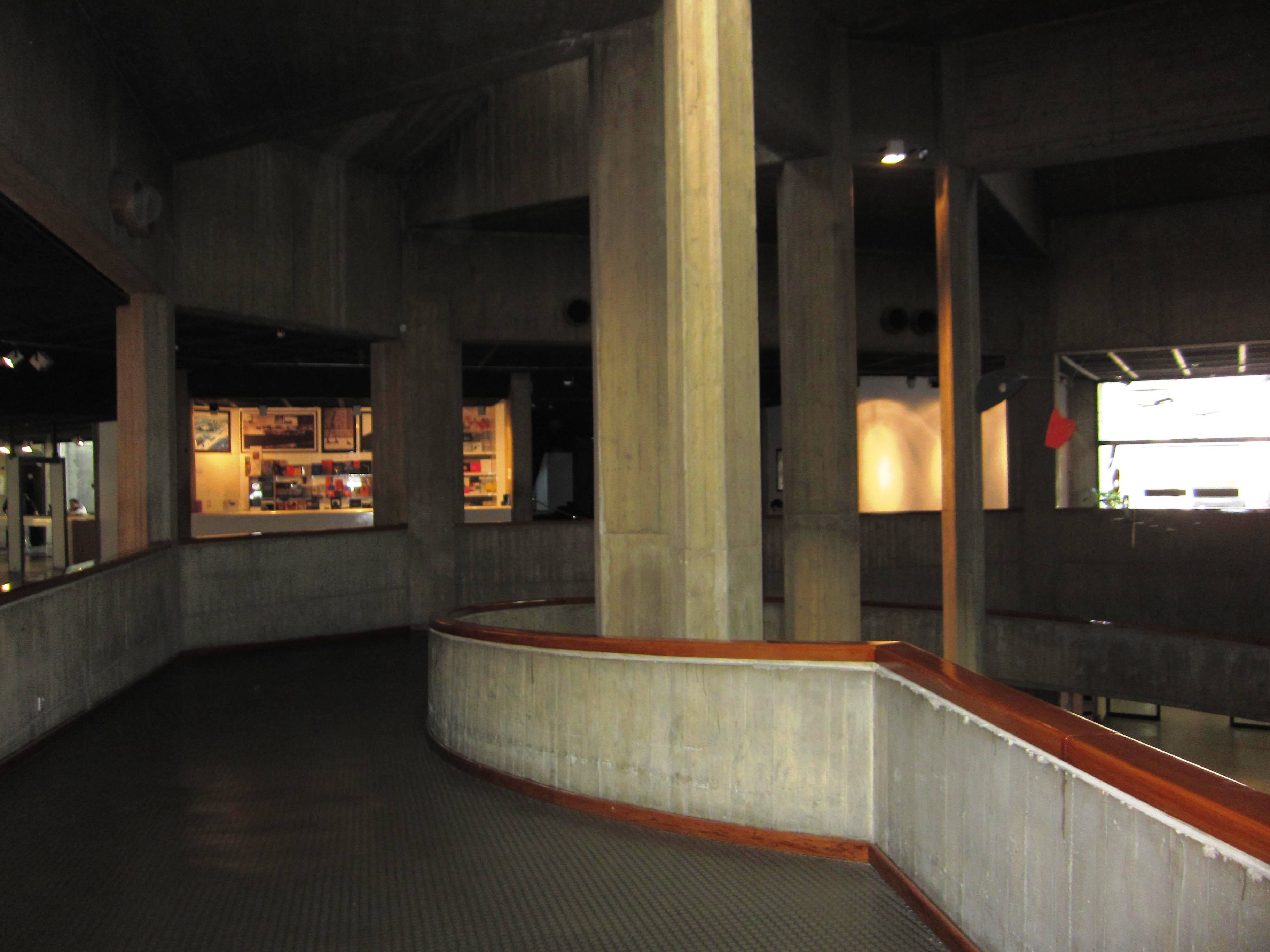 The Interior of Tehran Museum of Contemporary Art